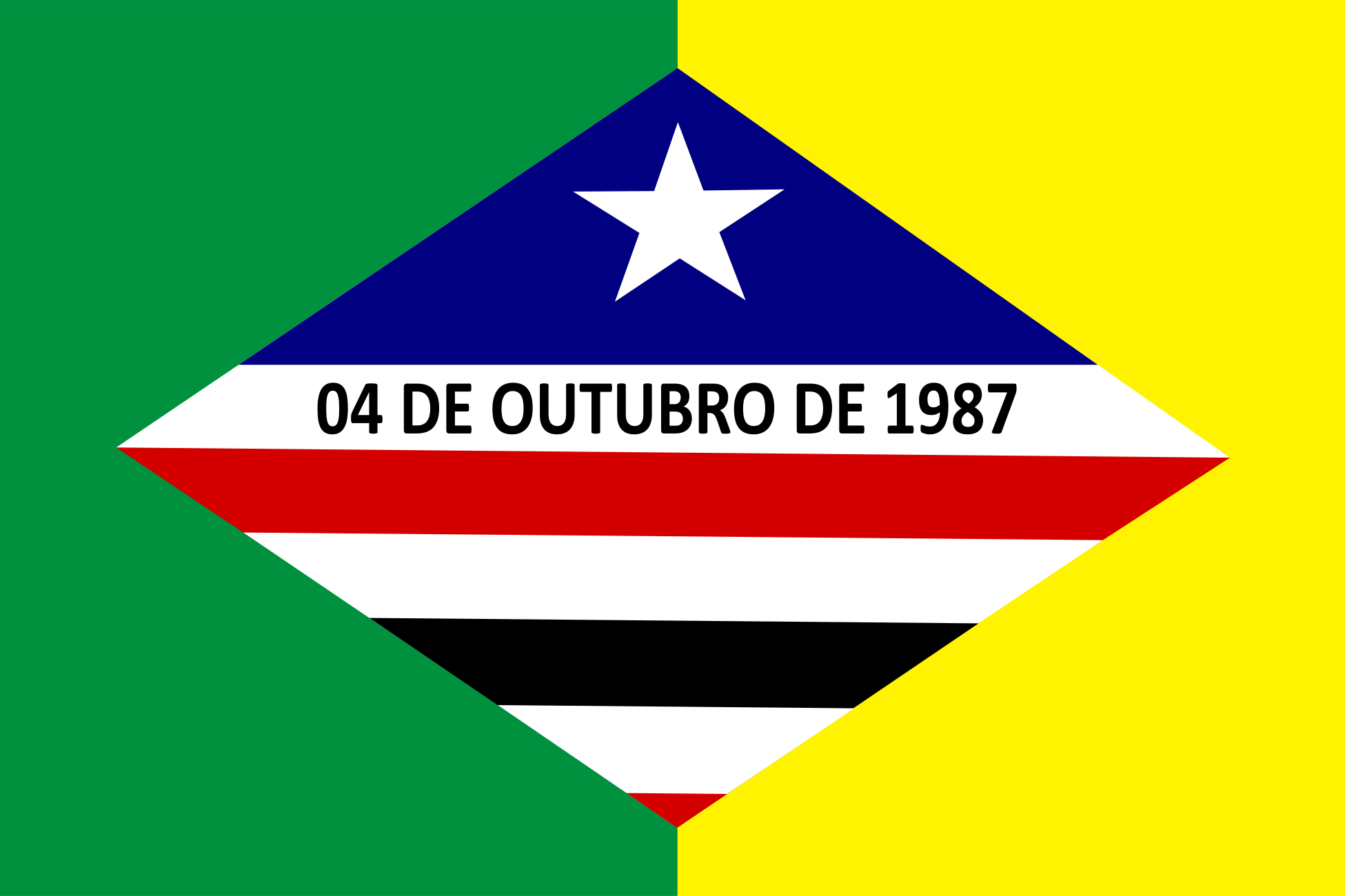 Flag of Zé Doca, Maranhão, Brazil.